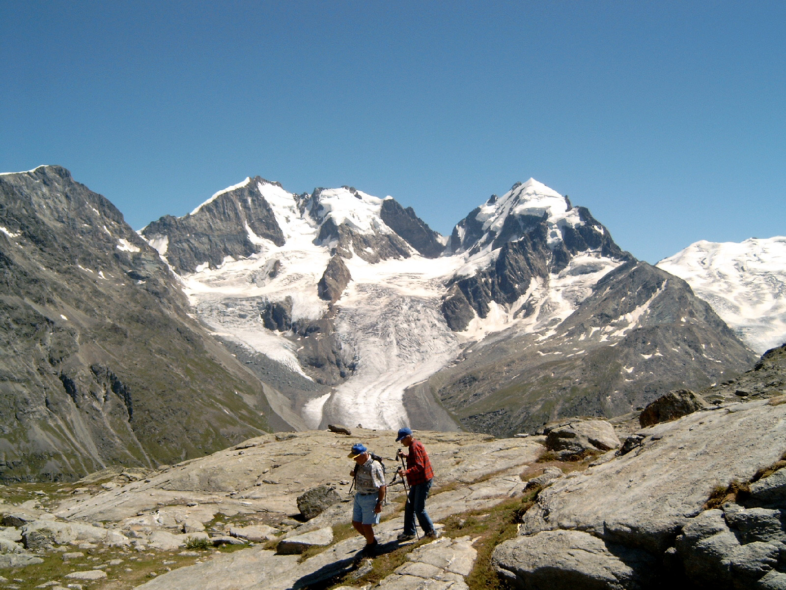 Piz Roseg and Vadret da Roseg as seen from the Fuorcla Surlej, Engadin, Graubünden, Switzerland